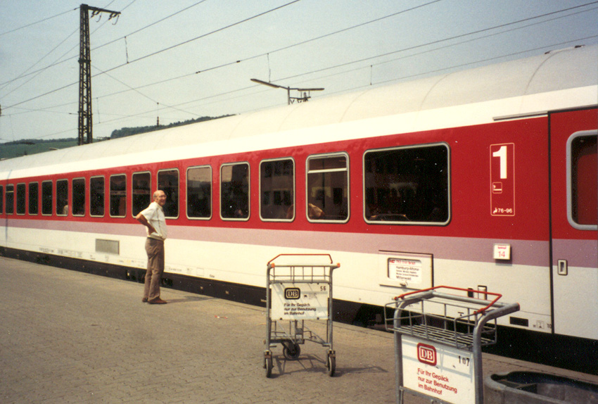 German first class Intercity train in Hannover, July 1989